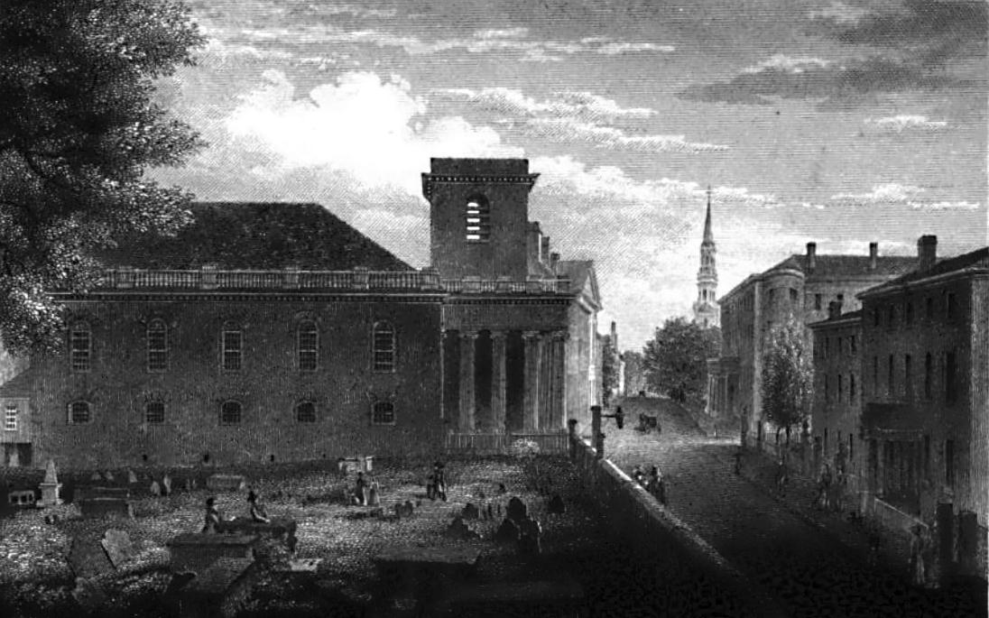 Illustration of King's Chapel, Boston from the book A History of King's Chapel, in Boston: The First Episcopal Church in New England (1833). Caption: "North view of King's Chapel, Tremont St."